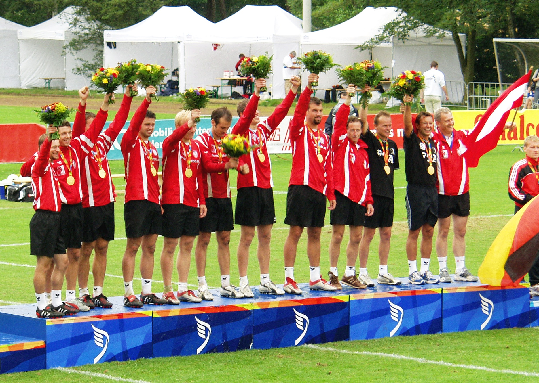 Award ceremony after the final fistball-game during the World Games 2005 in Duisburg, Germany